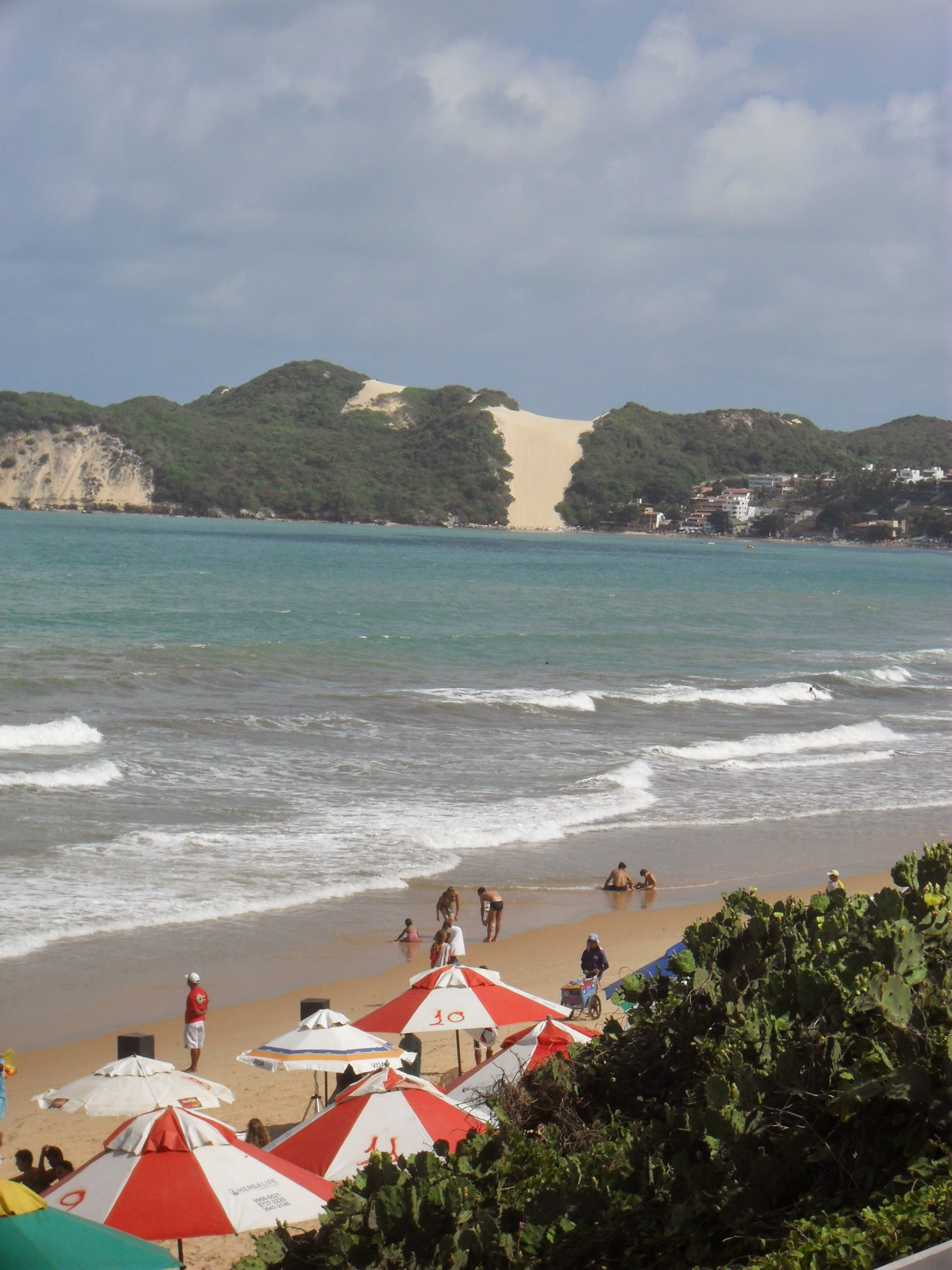 Morro do Careca, Praia de Ponta Negra, Natal-Brazil